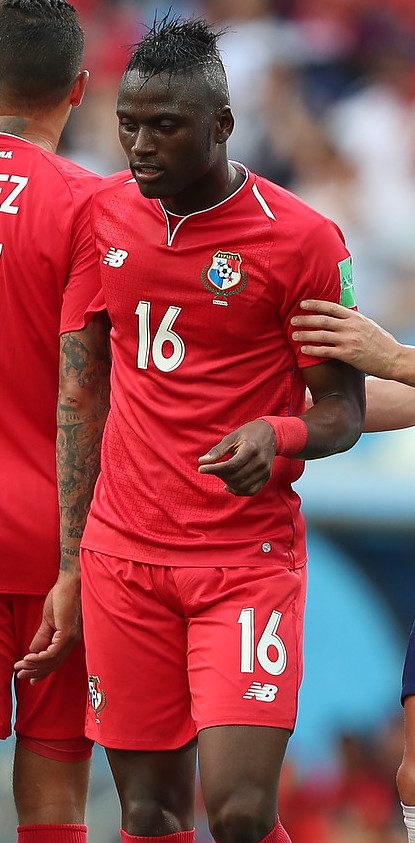 Abdiel Arroyo